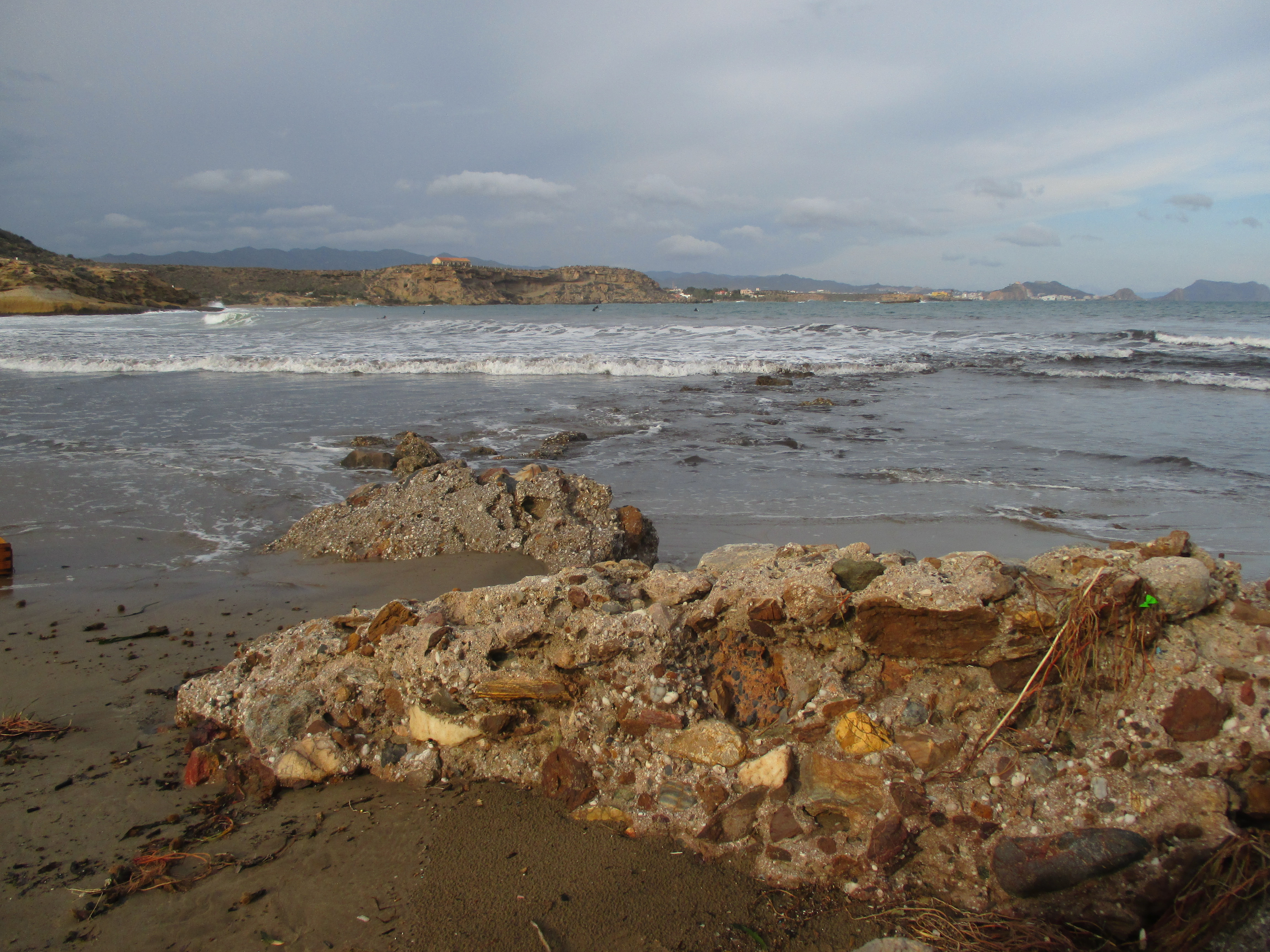 Conglomerate rocks outcropping in the sand of the La Carolina Cove This is a photography of a Special Area of Conservation in Spain with the ID: ES6200010. Natura2000 entry, EEA entry